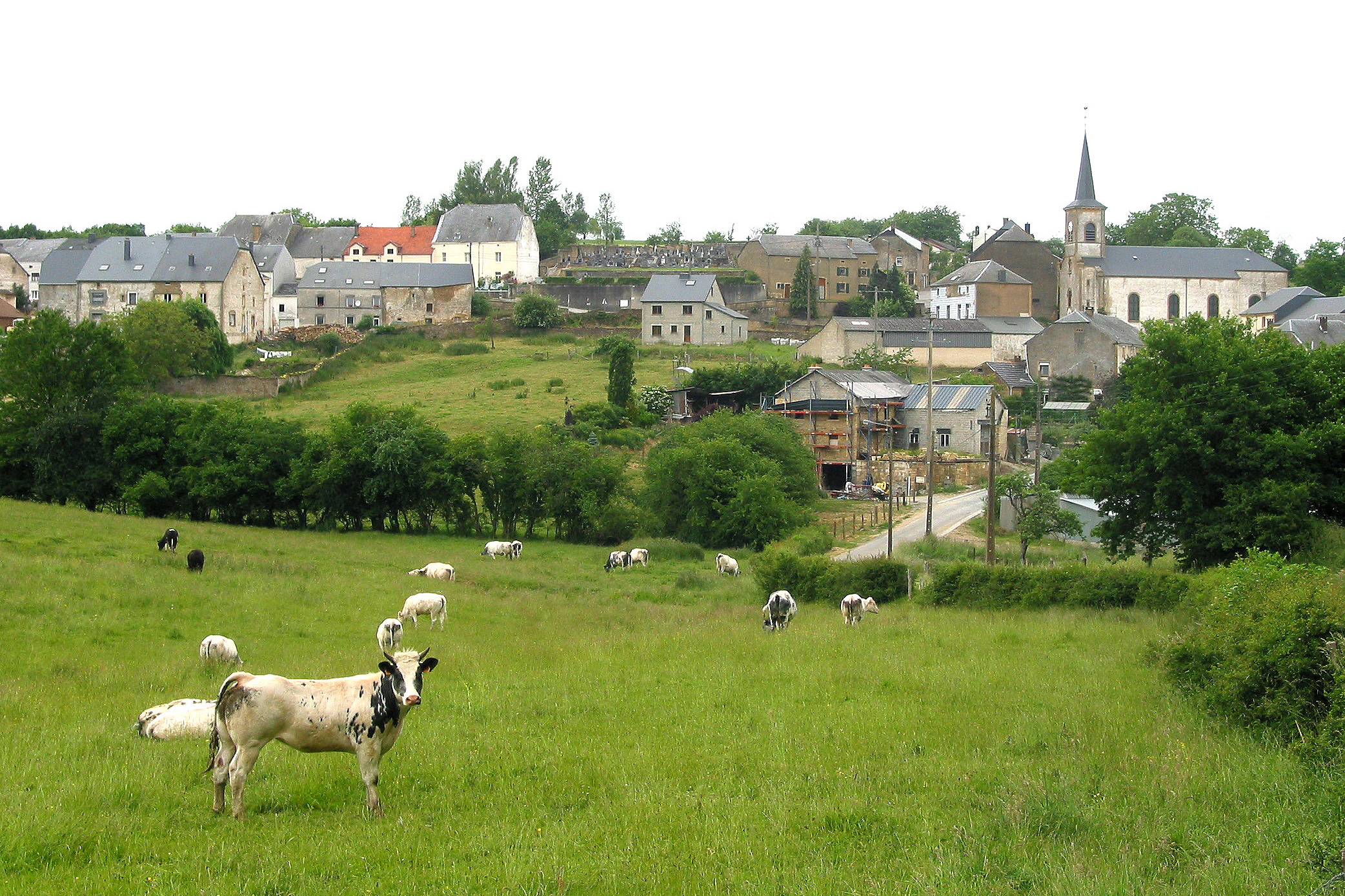 Villers-la-Loue (Belgium), the village in the springtime.